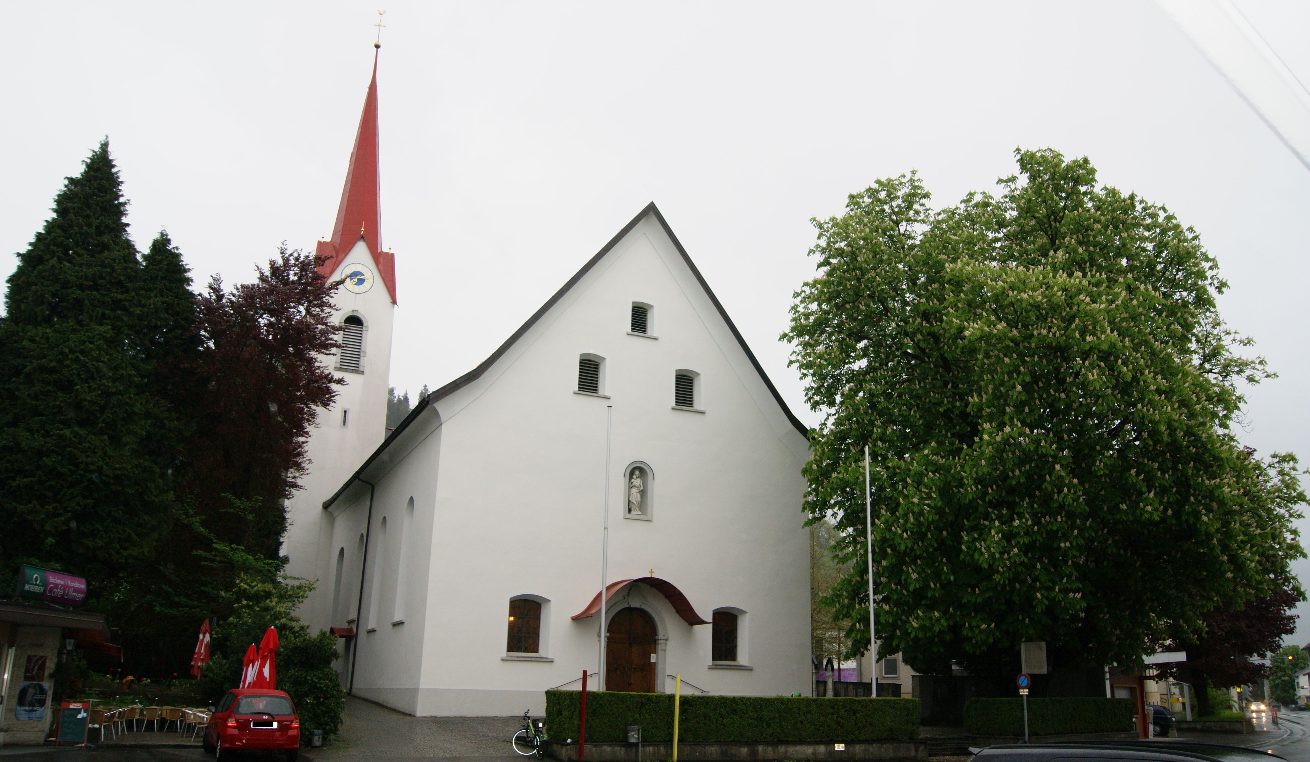 Parish Church of the Visitation in Haselstauden. Pilgrimage church in Dornbirn, Vorarlberg, Austria. Main entrance.